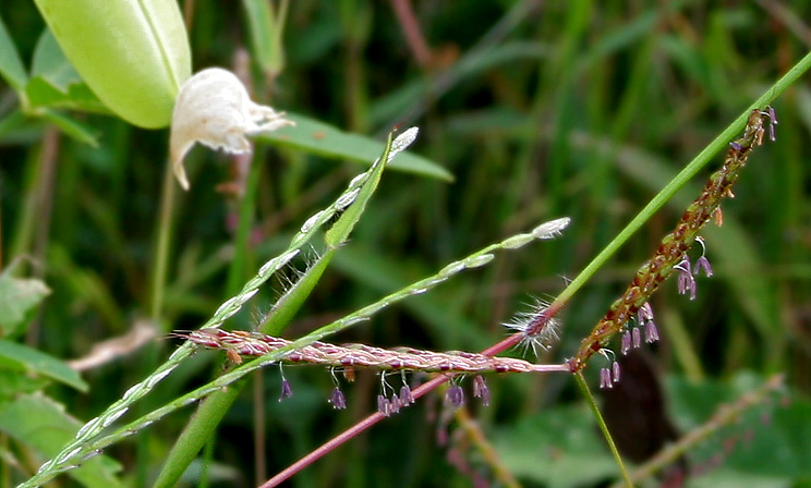 Ischaemum species in Goa, India.